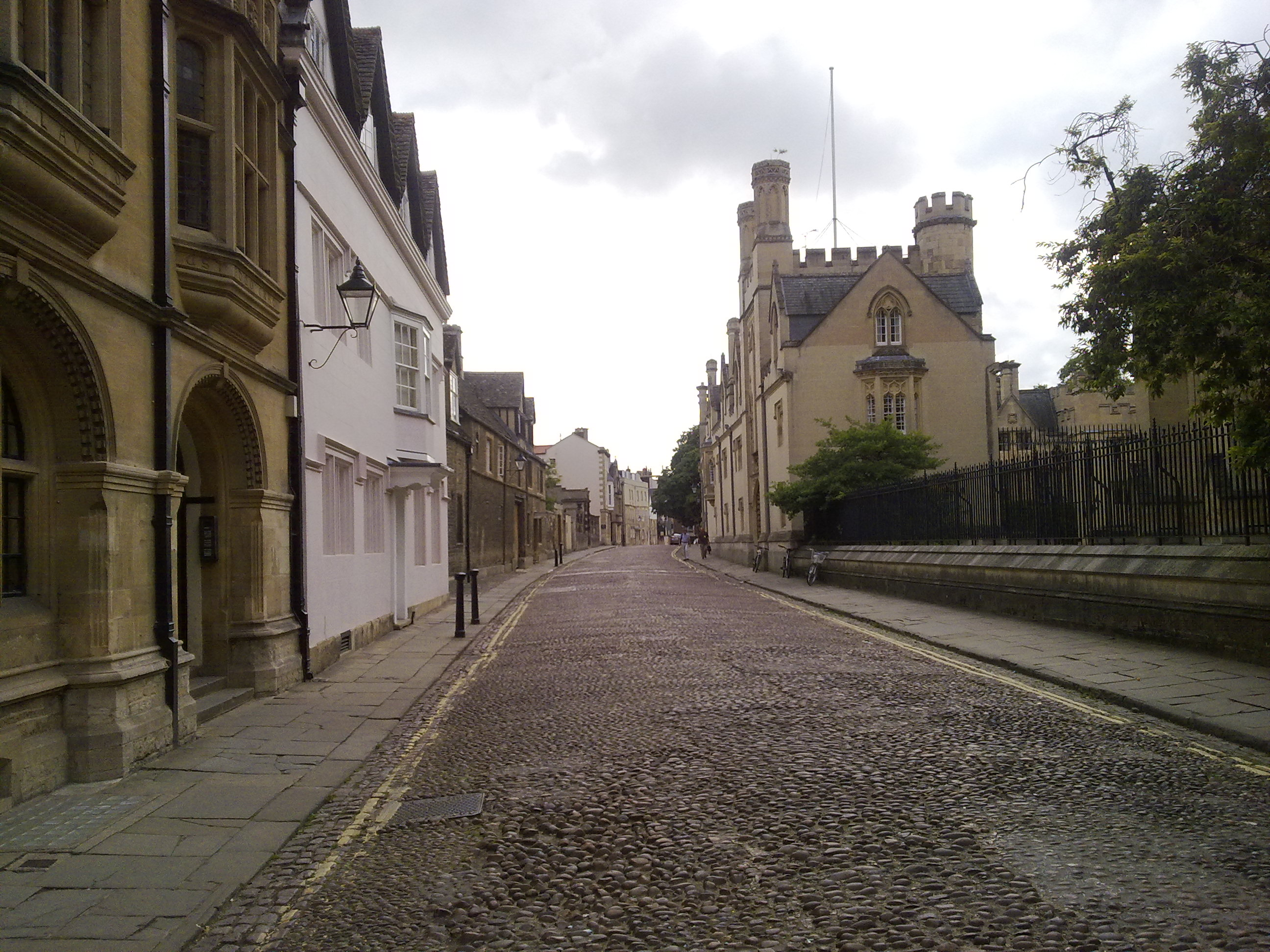 Merton Street, looking west, from near the Magpie Lane entrance.